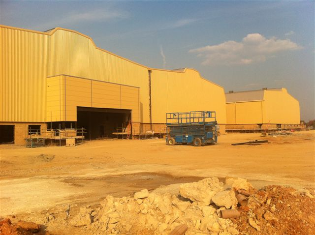 Building the new Warner Bros. Studio Tour London - The Making of Harry Potter